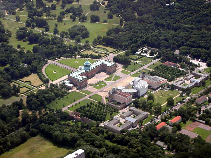 Areal view of the New Palace in Park Sanssouci in Potsdam, Germany, in 2006, while the colonnades between the Communs buildings have been restored.